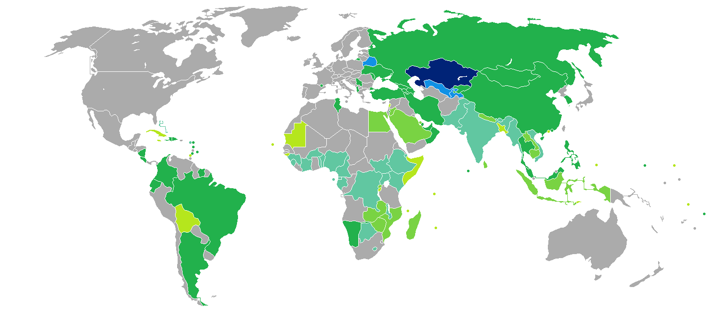 Visa requirements for Kazakhstani citizens Kazakhstan Visa free access Visa on arrival eVisa Visa available both on arrival or online Visa required